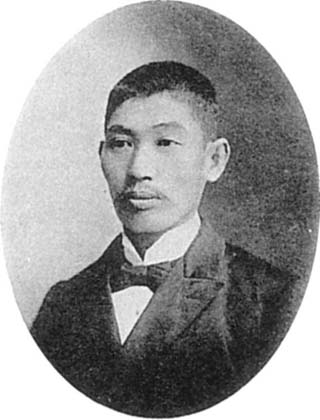 Z. Kawase, Professor of Forestry.